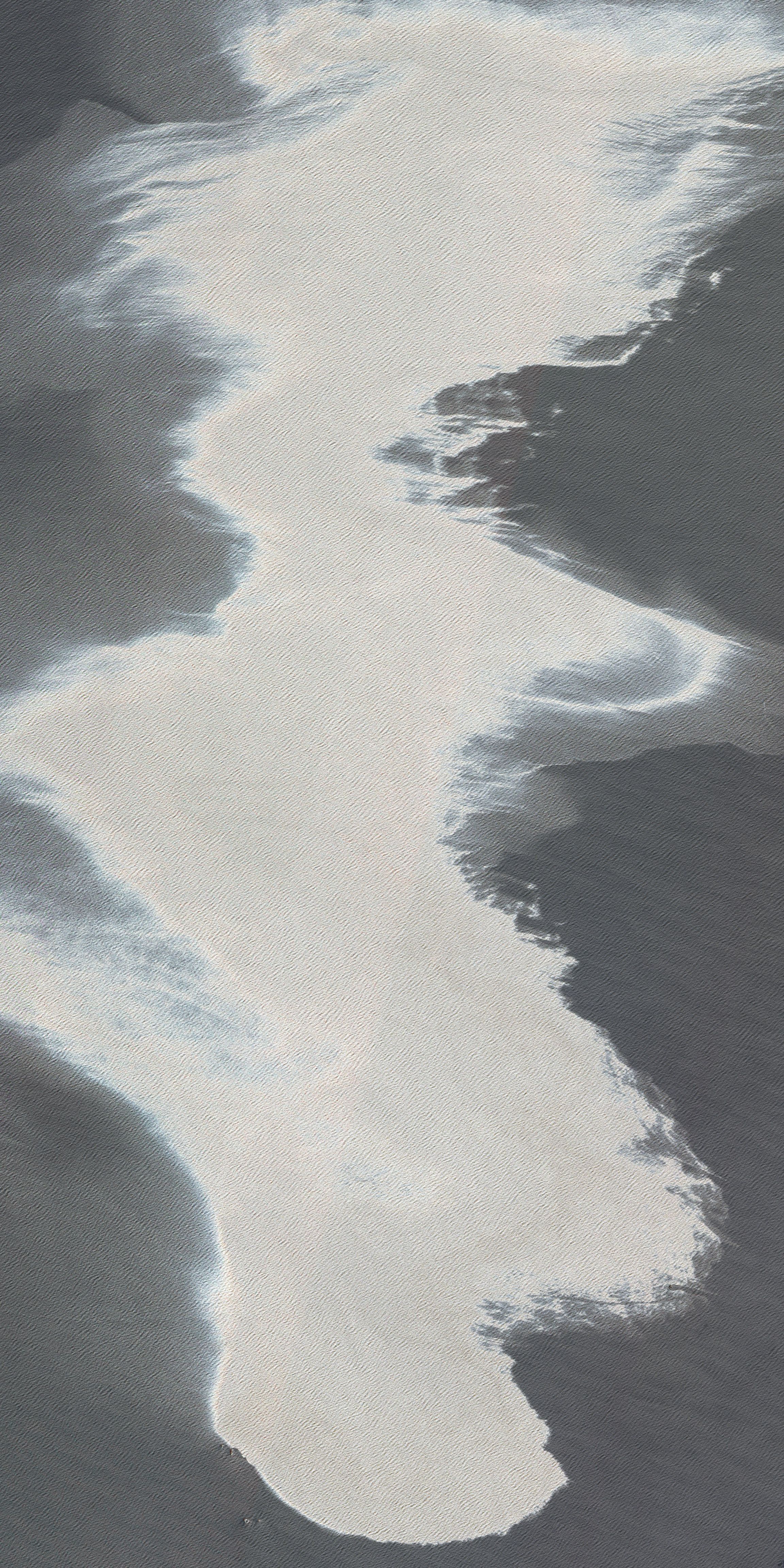 This close-up view of the Deepwater Horizon drilling rig explosion aftermath shows waves on the water surface as well as ships, presumably involved in the clean up and control activities.